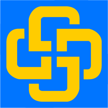 Swarzyca Kruszwicka